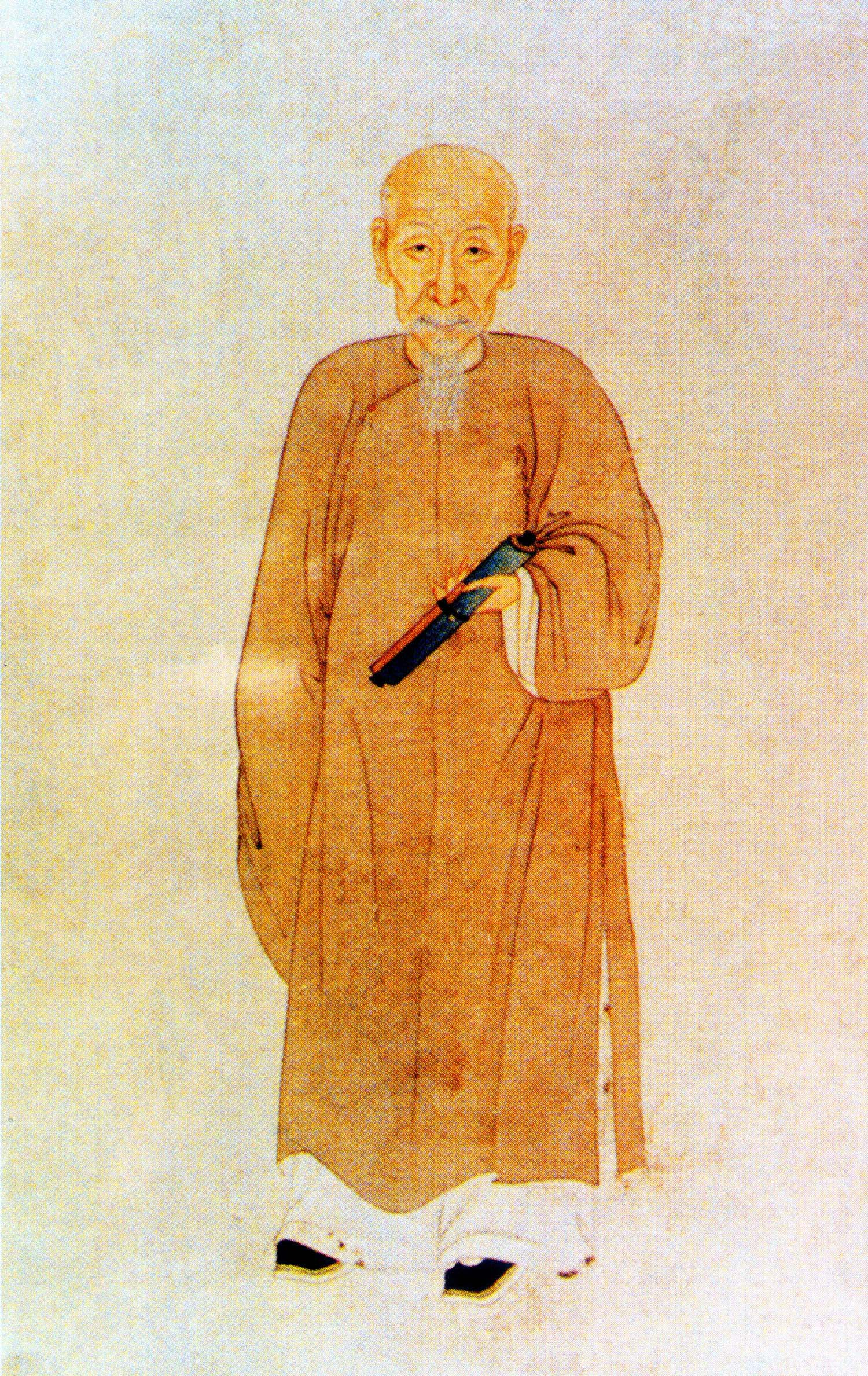 SUN Xingyan, politician and scholar of the Qing Dynasty.